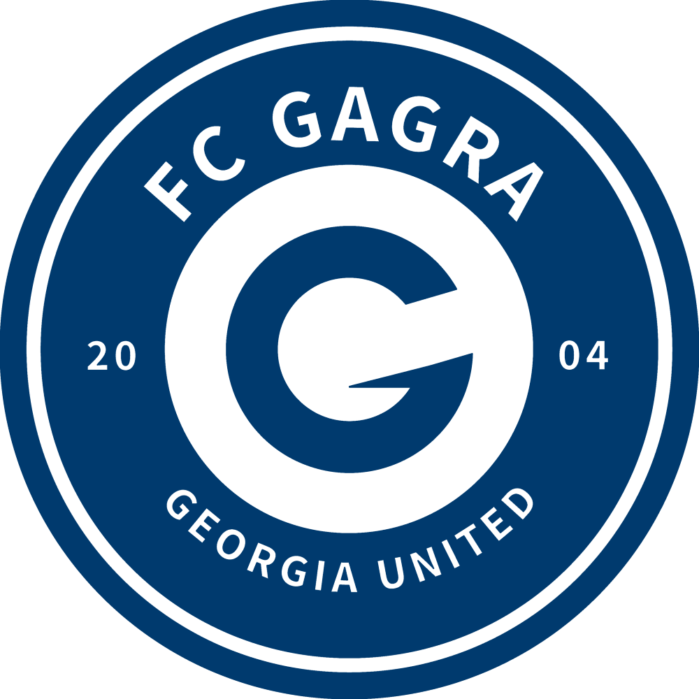 Football Club Gagra New Logo